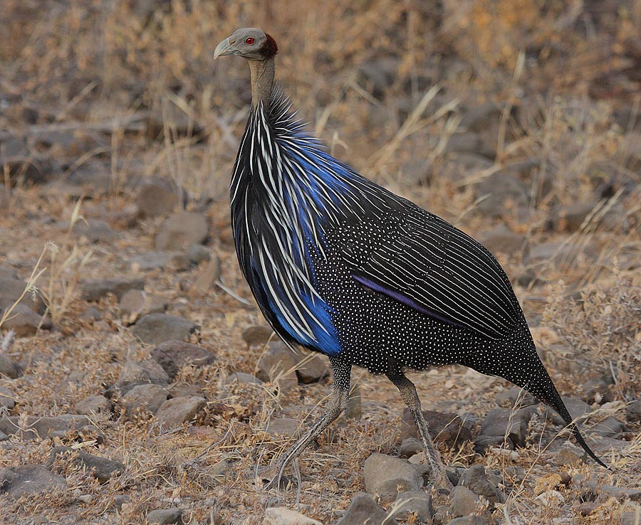 A Vulturine guineafowl at Buffalo Springs National Park, Kenya.